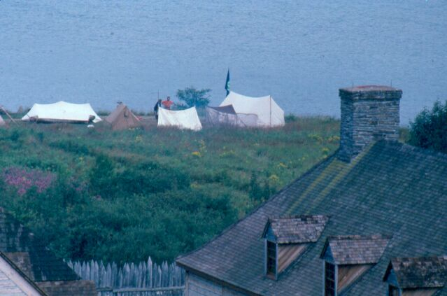 Summer Rendezvous Encampment at Grand Portage, MN